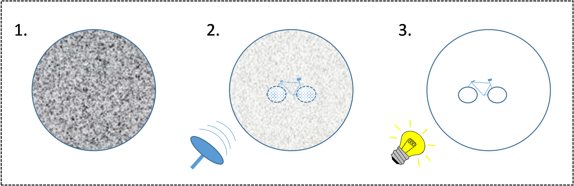 Acoustic Fabrication via the Assembly and Fusion of Particles